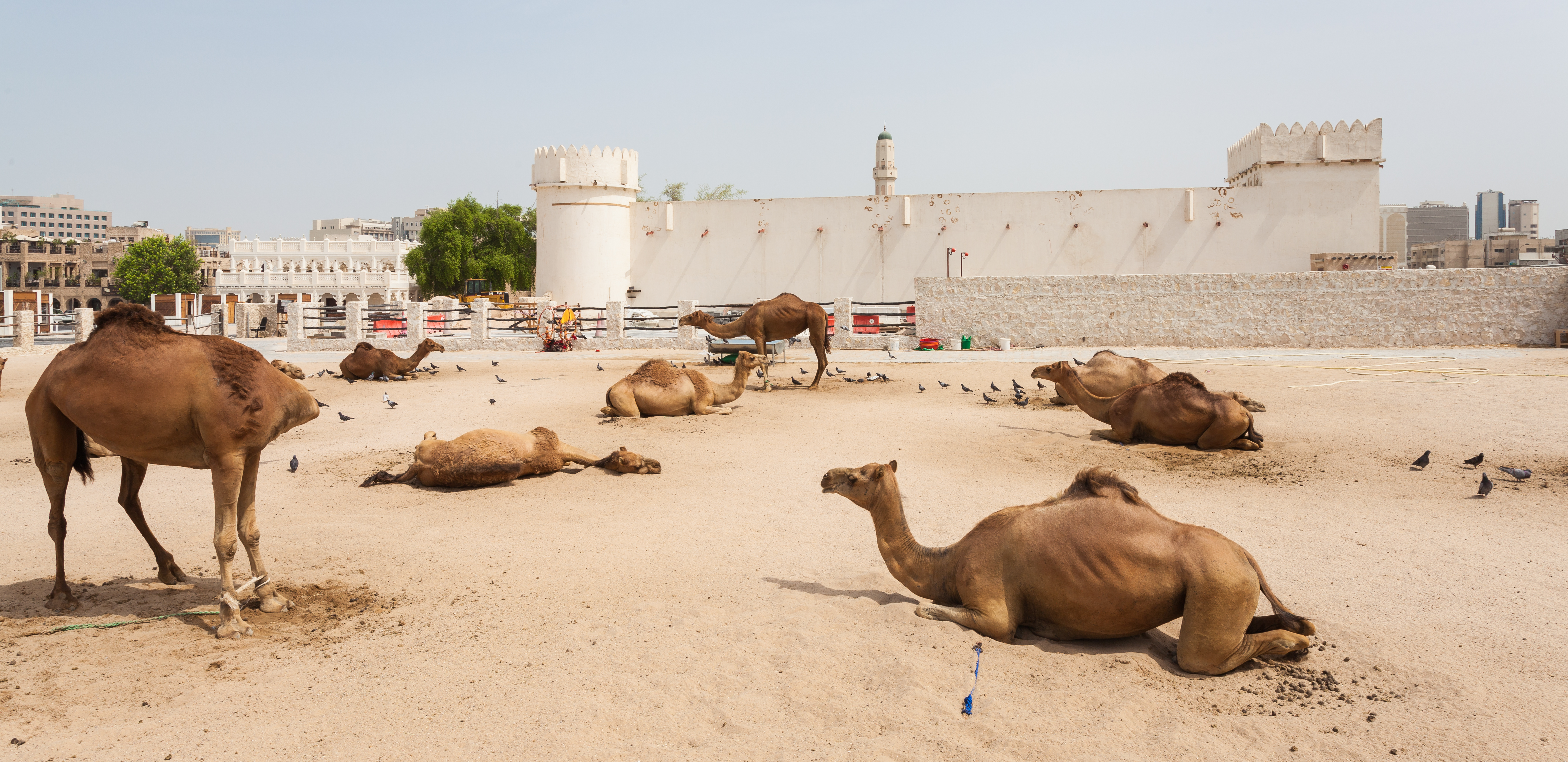 Al Koot Fort, Qatar